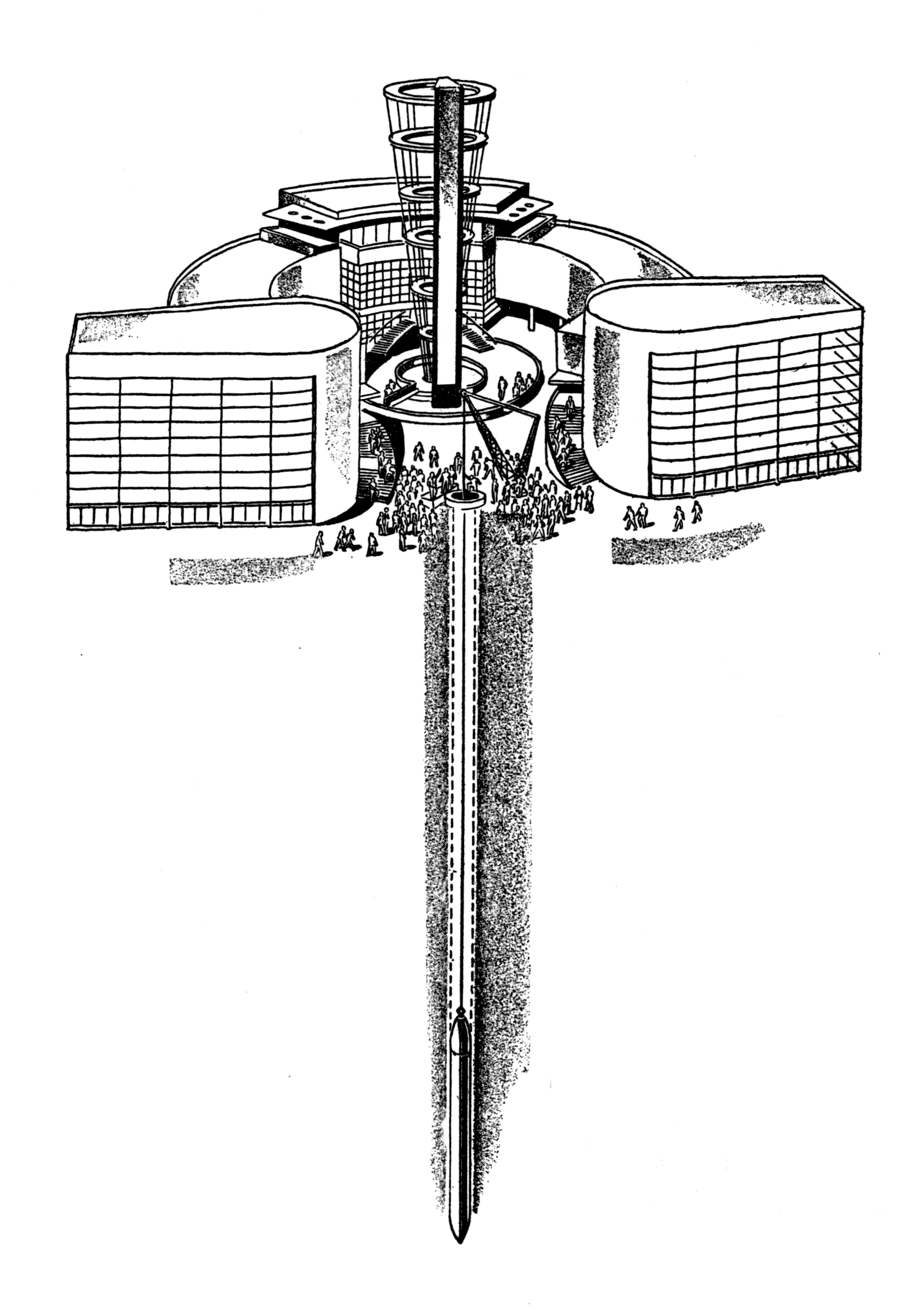 scan of the intitial for the page 5 of The book of record of the time capsule of cupaloy, deemed capable of resisting the effects of time for five thousand years, preserving an account of universal achievements, embedded in the grounds of the New York World's fair, 1939 The caption reads "The Envelope For A Message To The Future Begins Its Epic Journey", cropped for transcription